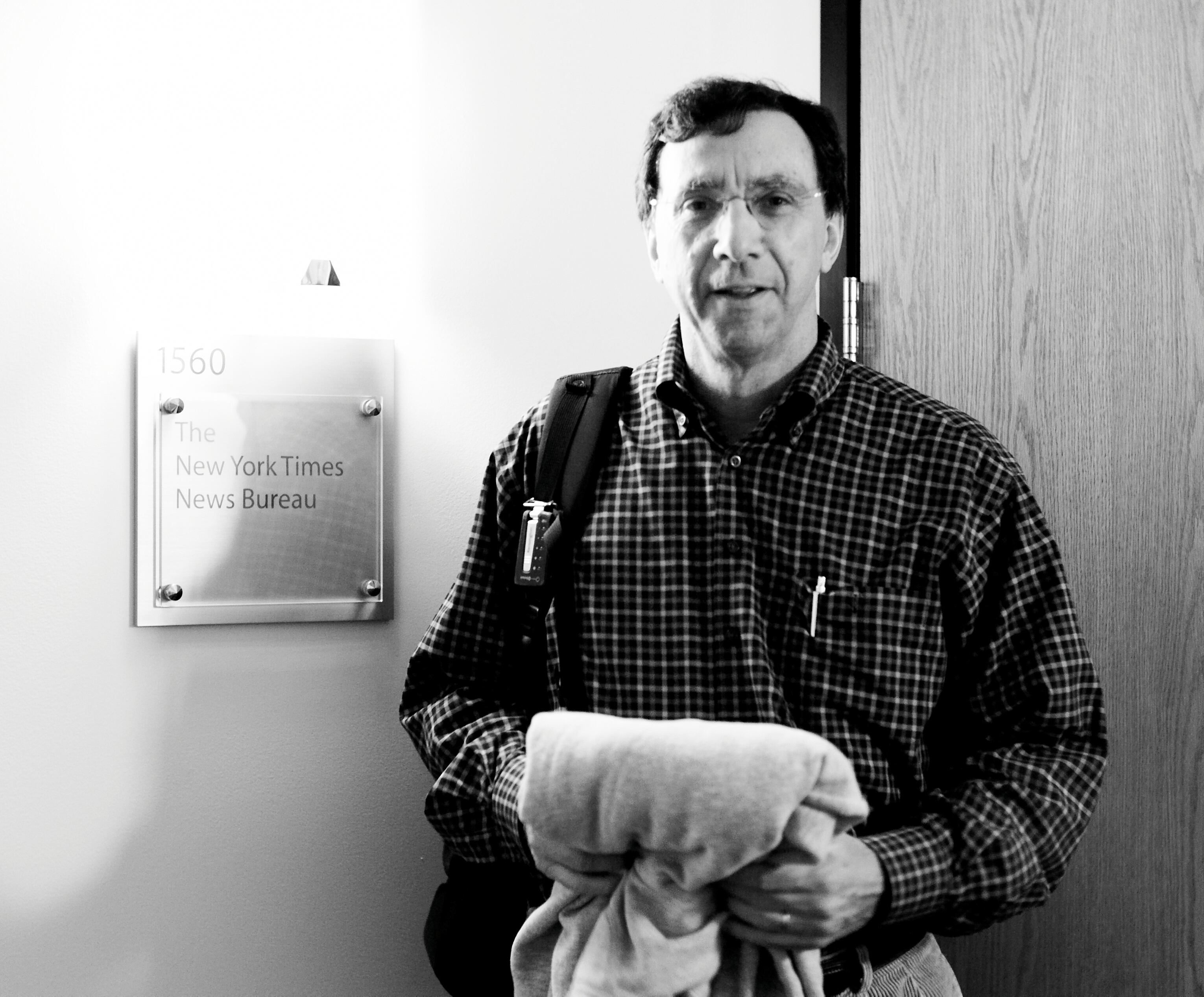 Photo by Joi